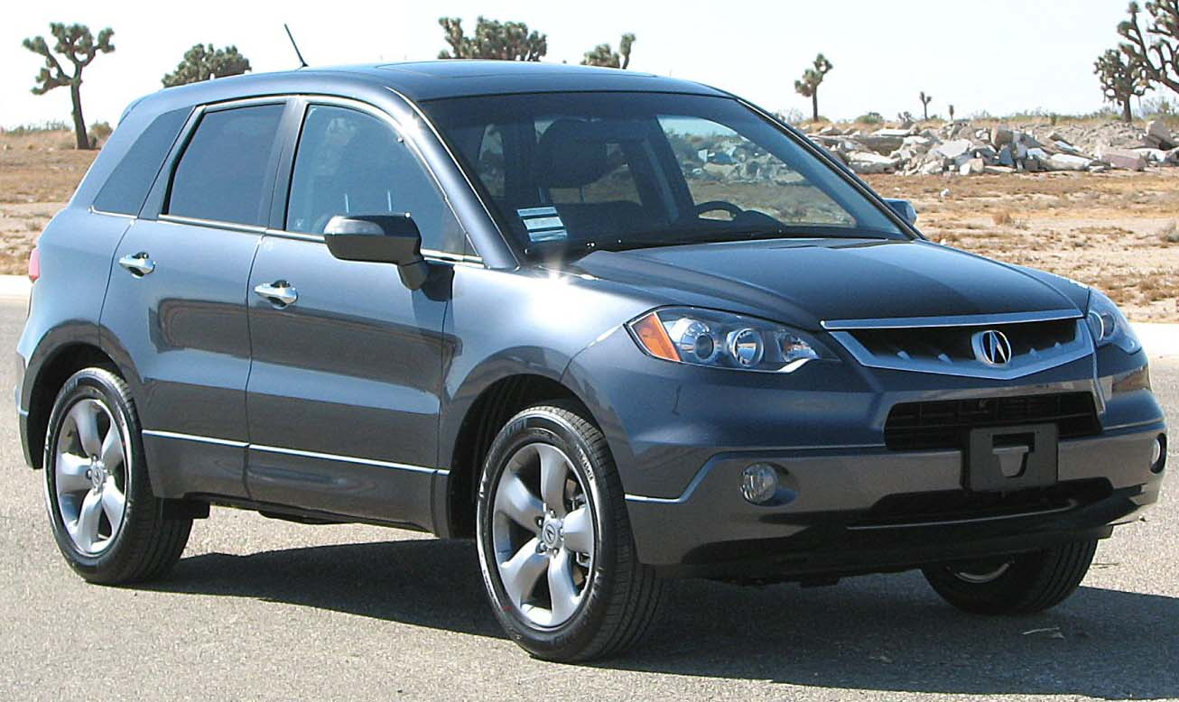 2007 Acura RDX photographed in USA.